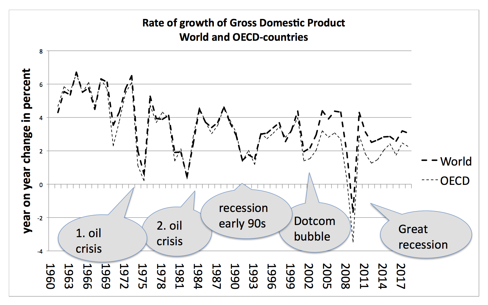 World GDP growth rate and GDP growth rate of total OECD countries. Data source: World Bank Group and OECD.